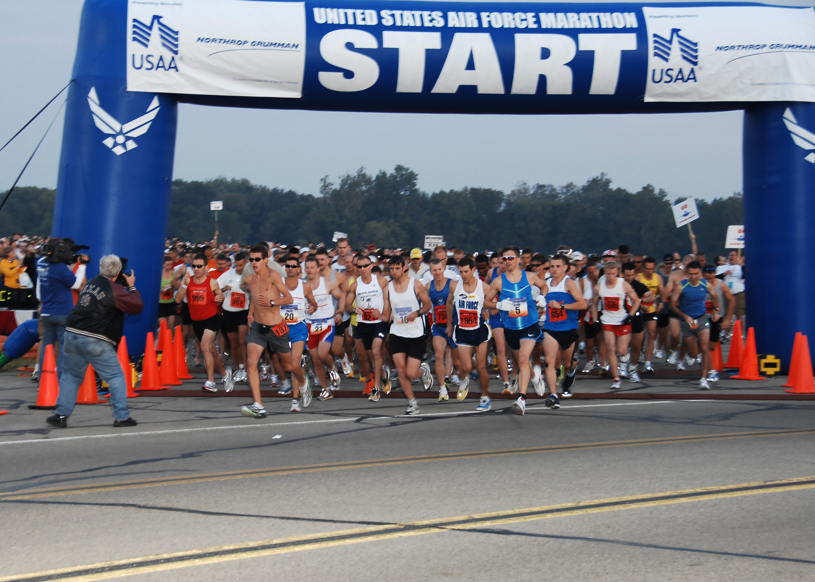 Start of the 12th Annual U.S. Air Force Marathon at Wright-Patterson Air Force Base, Ohio. Nearly 7,400 runners took part in Marathon events Sept. 19 - 20.